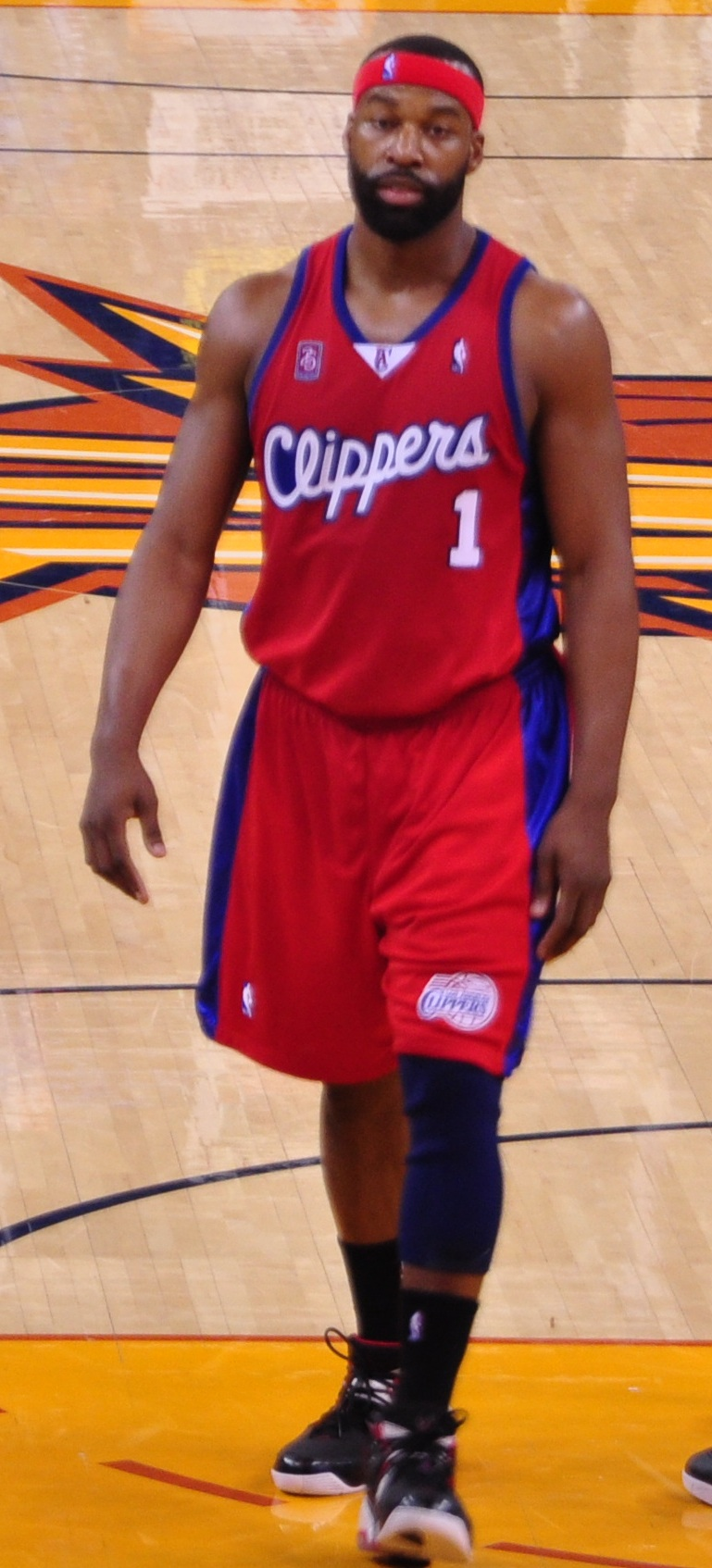 Baron Davis of the LA Clippers